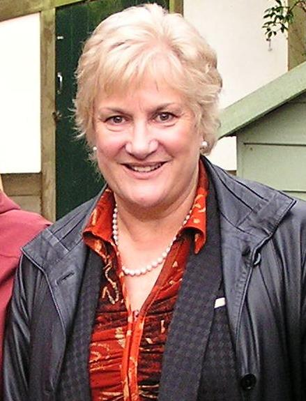 Annette King at Onslow Kindergarten June 2011